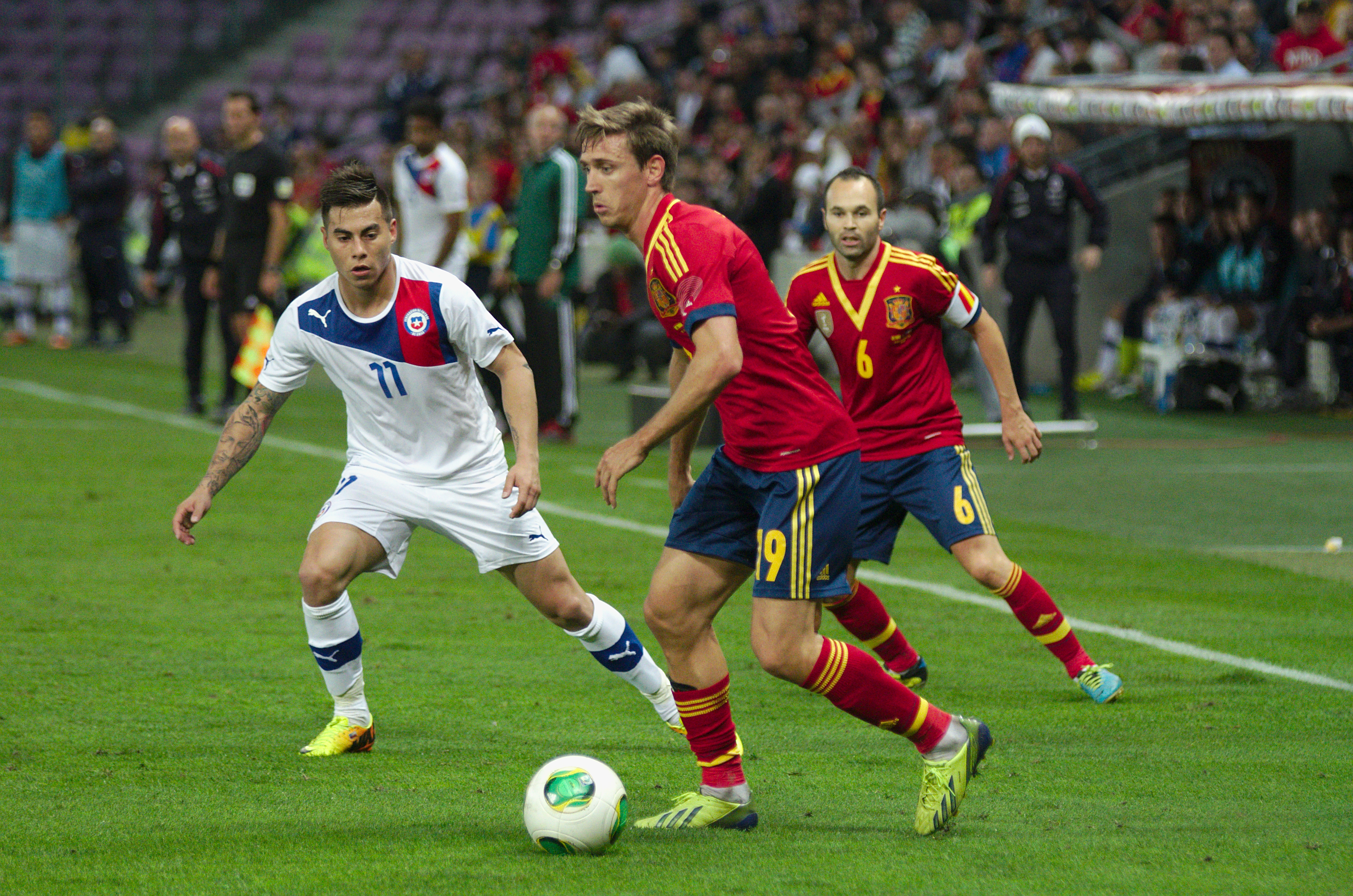 Spain - Chile - 10-09-2013 - Geneva - Eduardo Vargas, Ignacio Monreal and Andres Iniesta